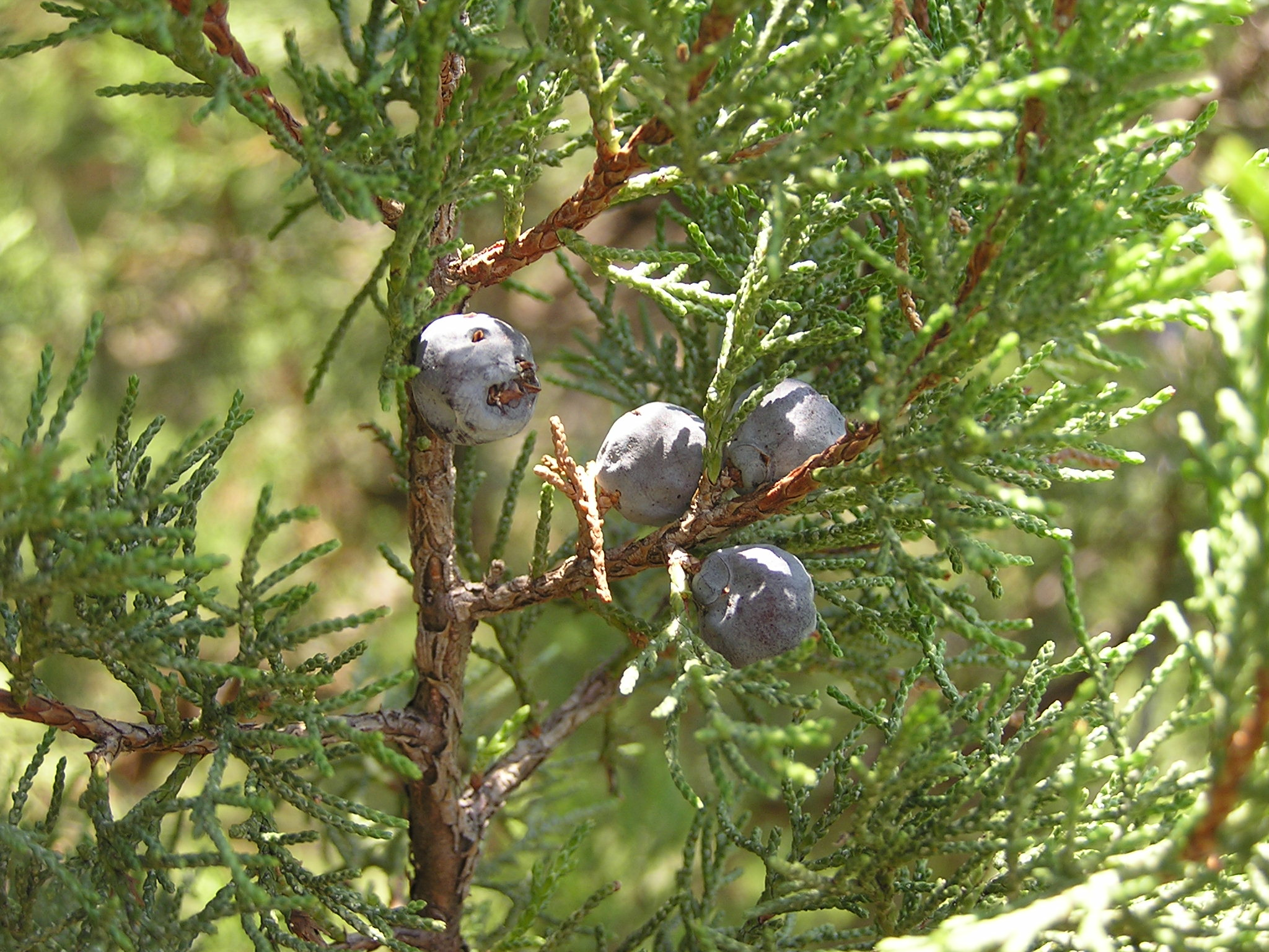 Juniperus excelsa, Laspi Bay, Crimea, Ukraine